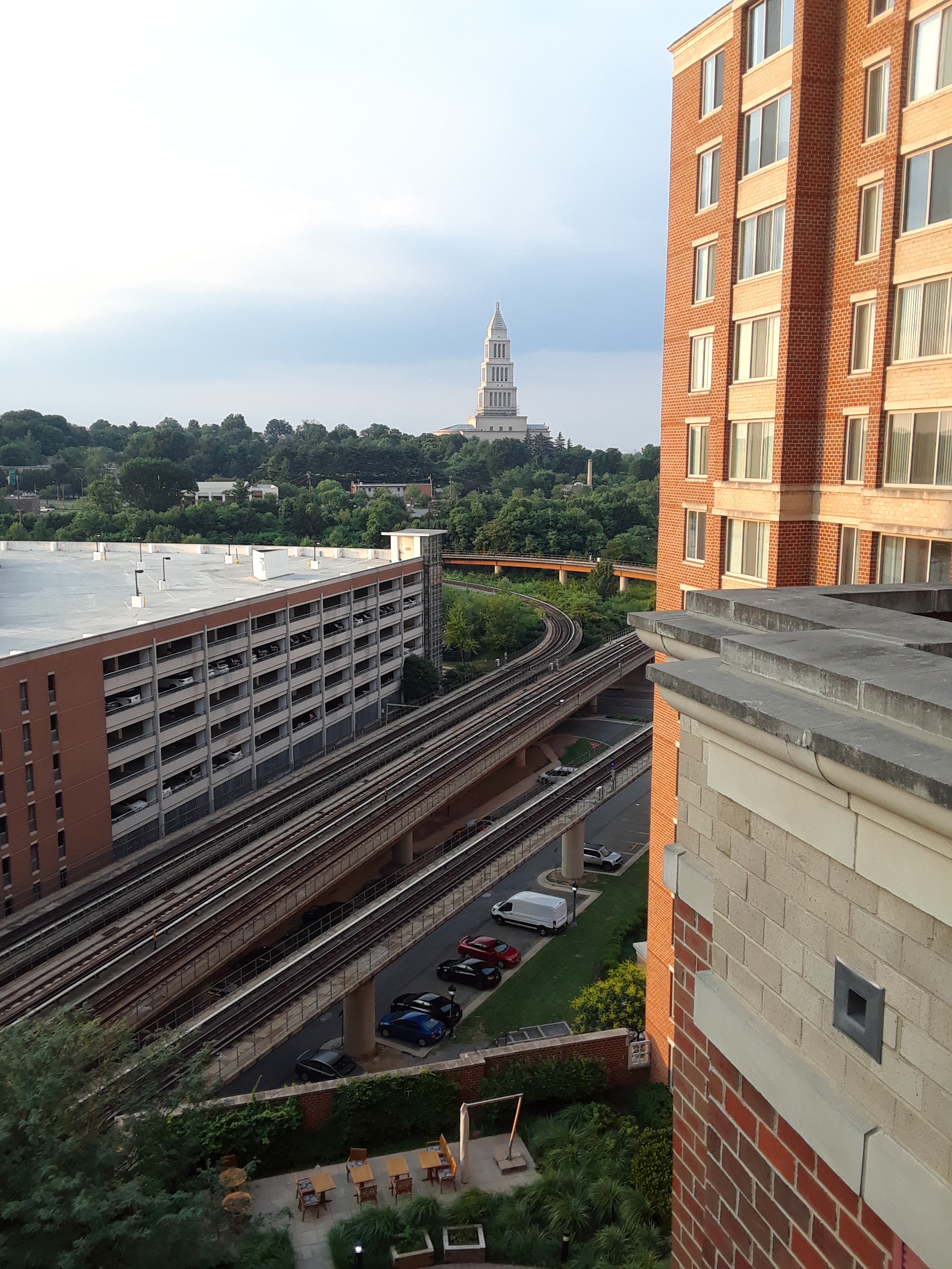 George Washington Masonic National Memorial and Blue Line Metro Rails Alexandria, VA